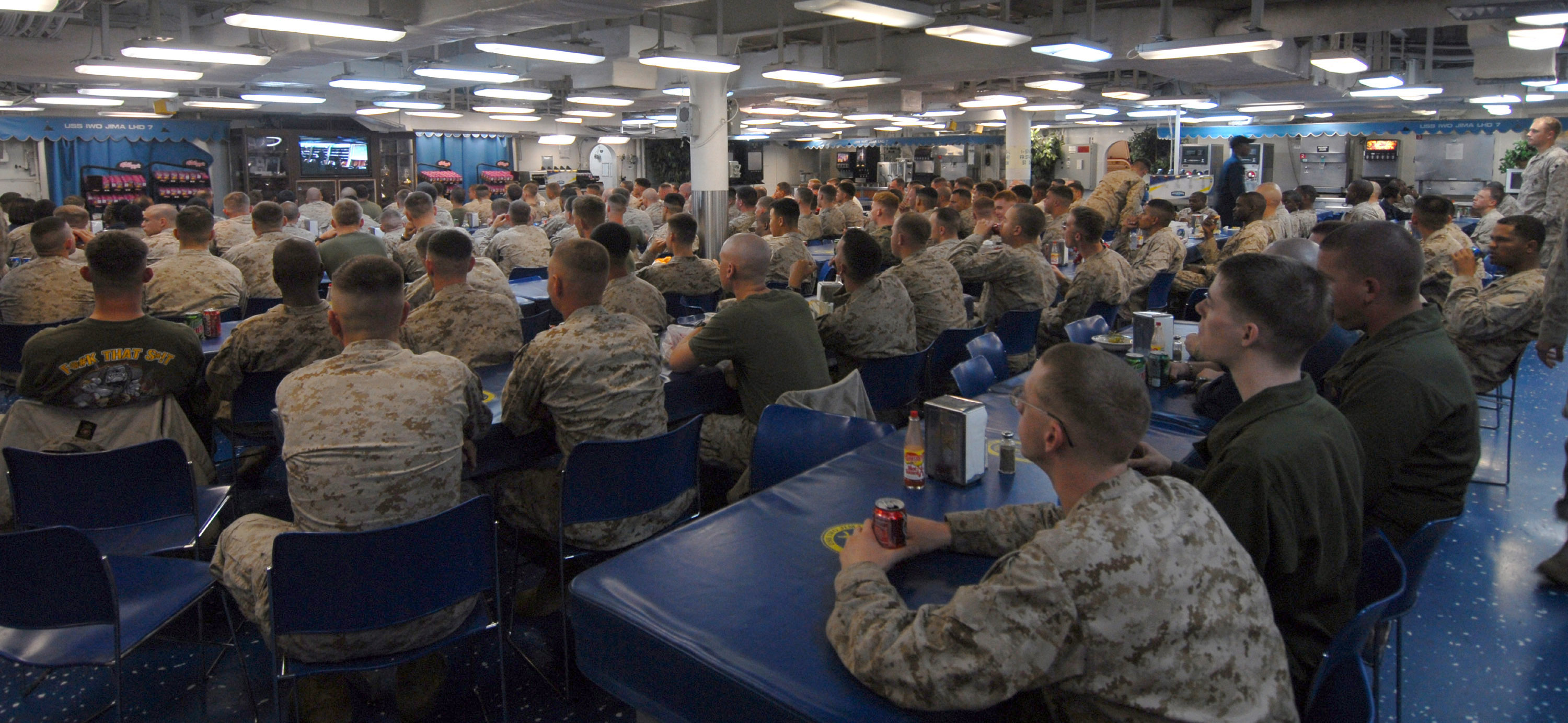 060729-N-4856C-005 Mediterranean Sea - U.S. Marines and Sailors aboard the multi purpose amphibious assault ship USS Iwo Jima (LHD 7) gather on the ship's mess deck for "Movie Night," a Morale Welfare and Recreation (MWR) sponsored event. Iwo Jima is currently deployed on a scheduled six-month deployment in support of Maritime Security Operations (MSO).